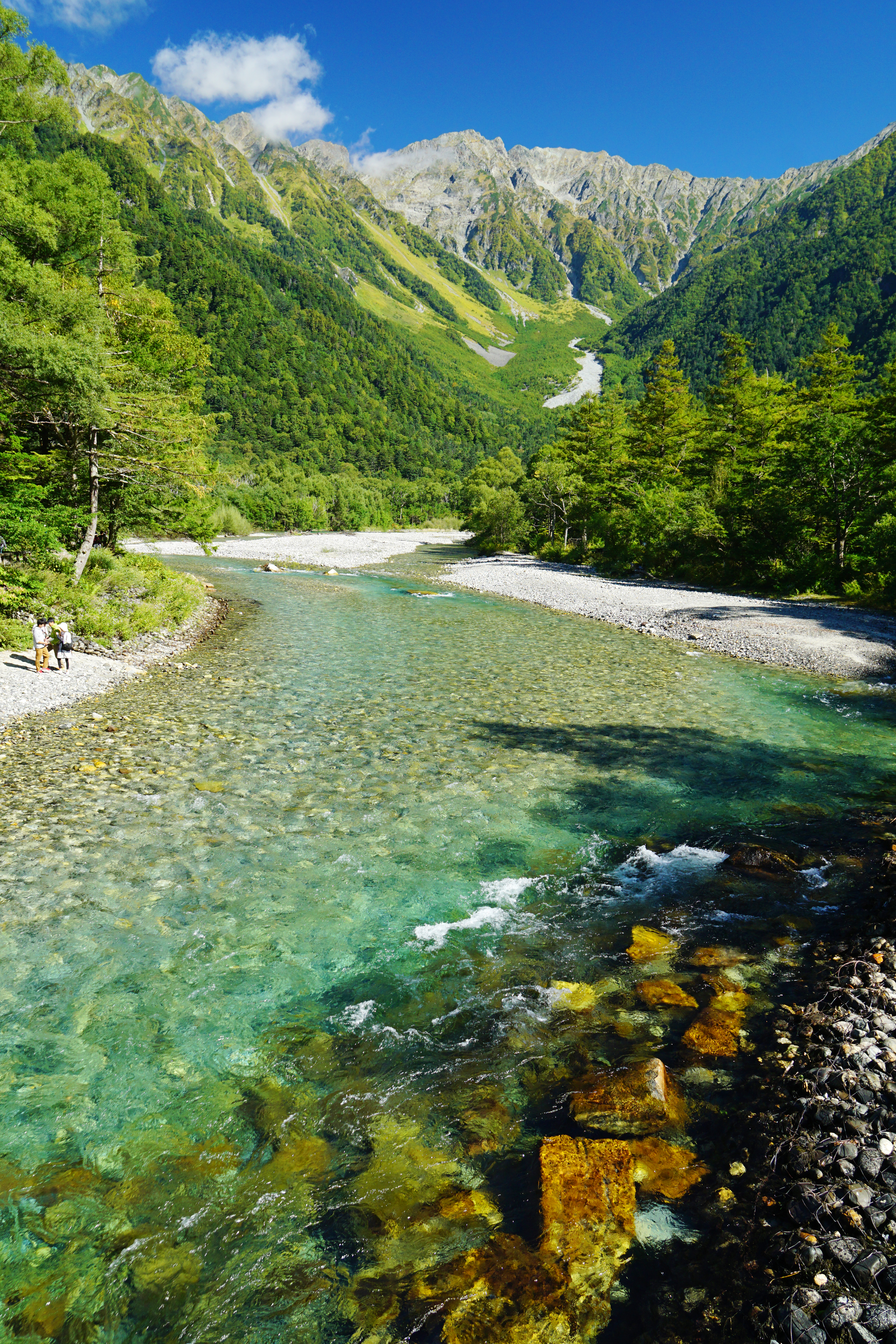 Azusa River and Hotaka Mountains at Kamikochi, Matsumoto, Nagano prefecture, Japan